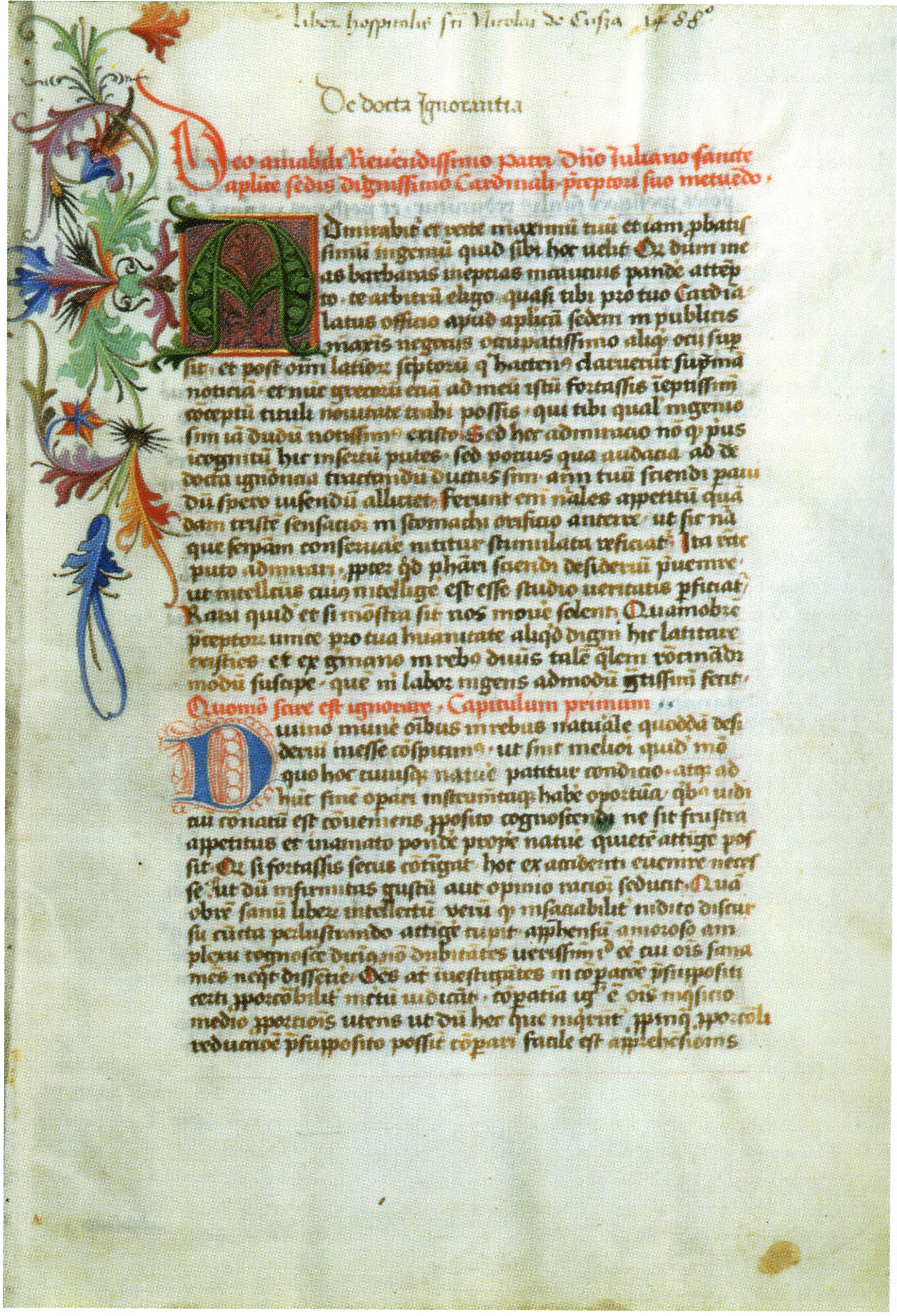 Nicholas of Cusa, De docta ignoratia (beginning), in ms. Bernkastel-Kues, St. Nikolaus-Hospital, 218, fol. 1r.